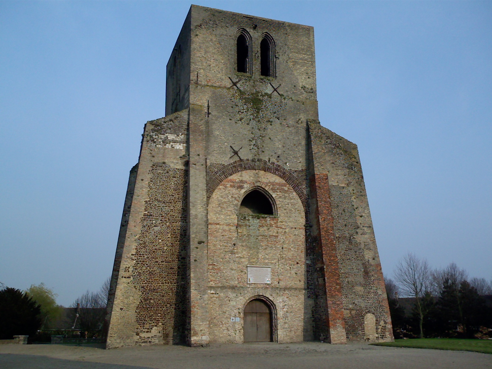 Picture of the remains of the abbey of Saint Winoc in Bergues, France